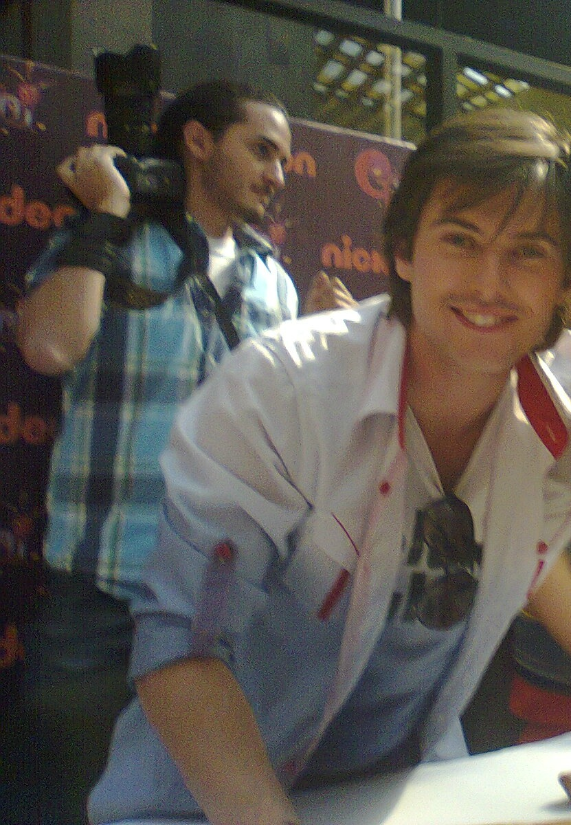 Venezuelan Guy in a signing session in Mexico acting in a TV series called Grachi.